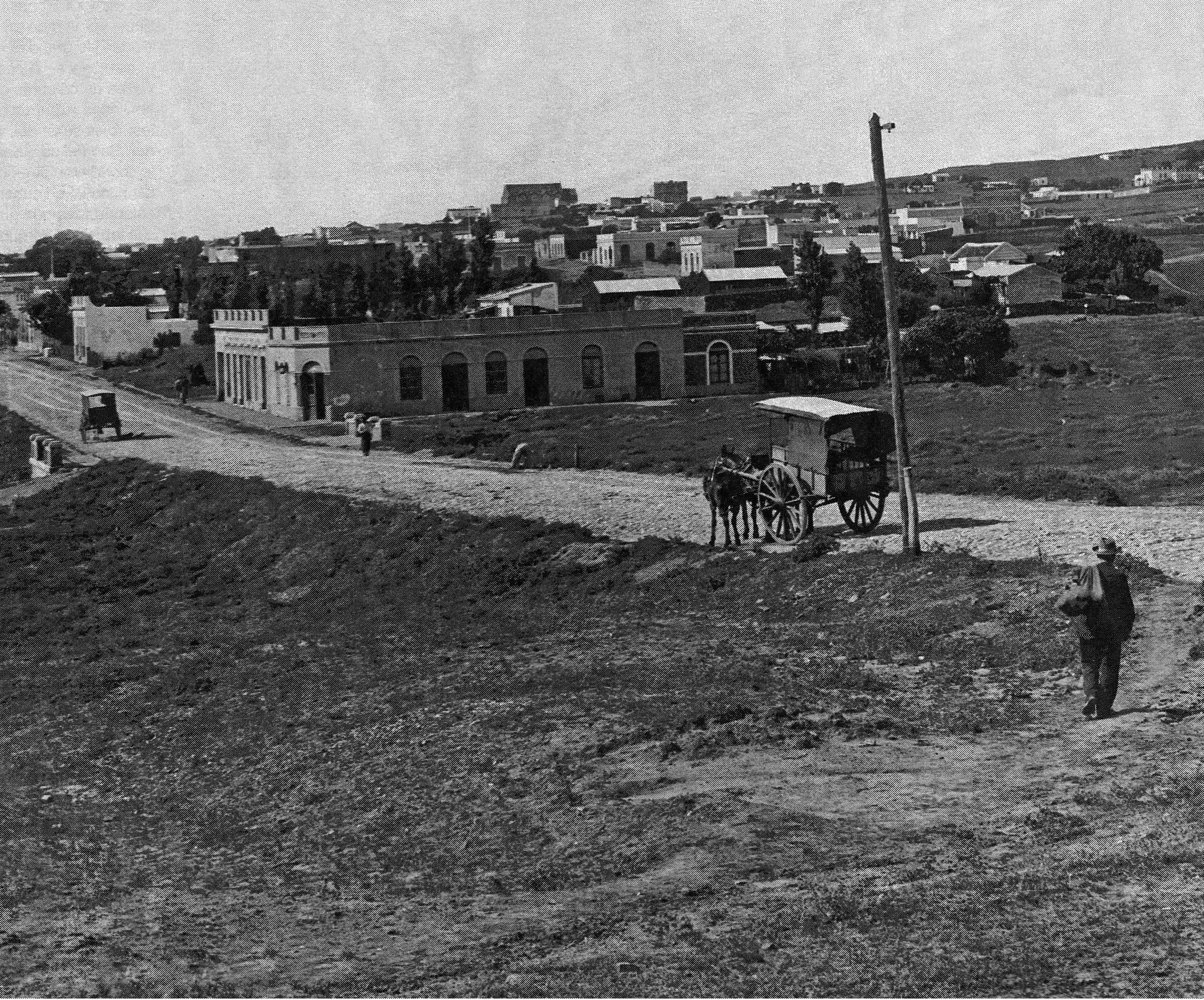 View of the Greece Street, of the neighborhood (then town) of Villa del Cerro in Montevideo, Uruguay, approximately in 1910.